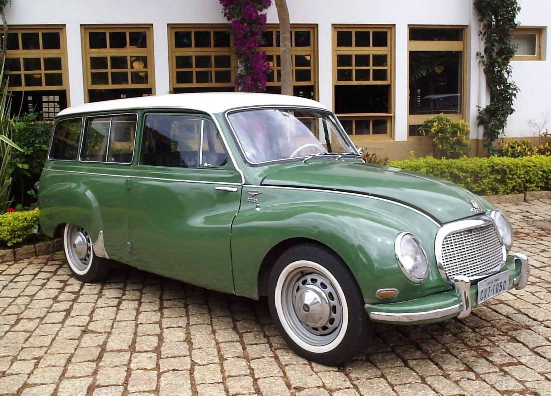 The Brazilian DKW F94 Universal was called Vemaguet. This model has a 981cm³ two stroke, three-cylinder engine.